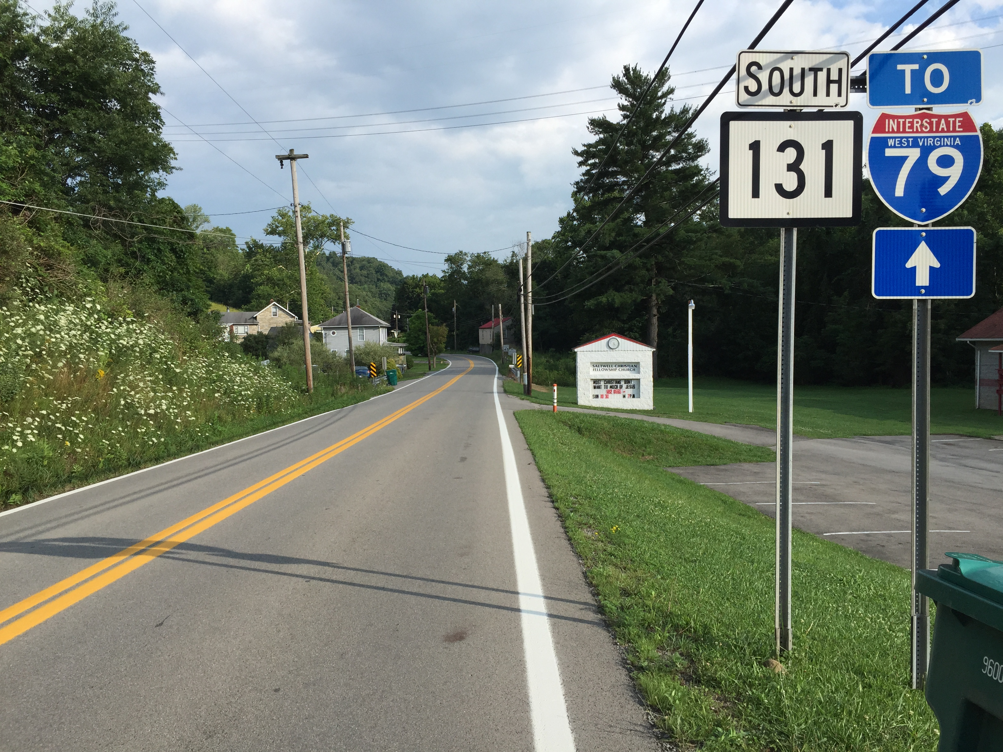 View south along West Virginia State Route 131 (Saltwell Road) at Coon Run Road (Harrison County Route 13/2) in Saltwell, Harrison County, West Virginia